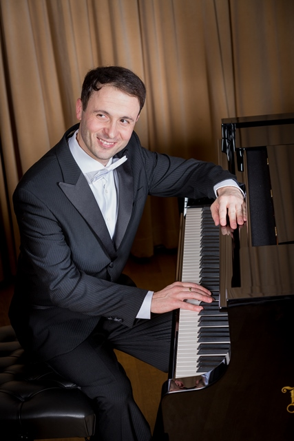 Concert Pianist Giorgi Latso-Latsabidze